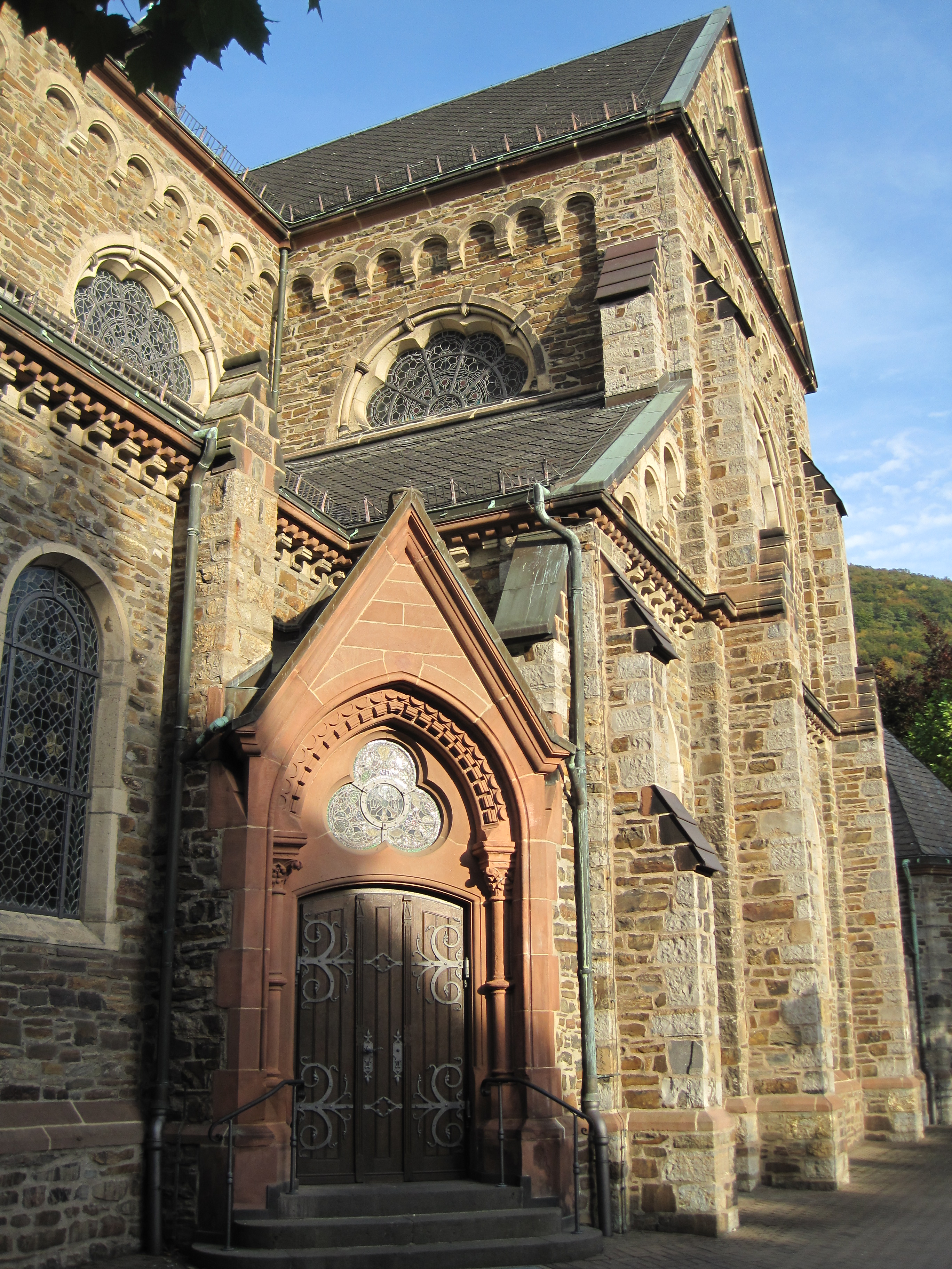 St Bartholomew Church Meggen, Lennestadt, Germany check usage